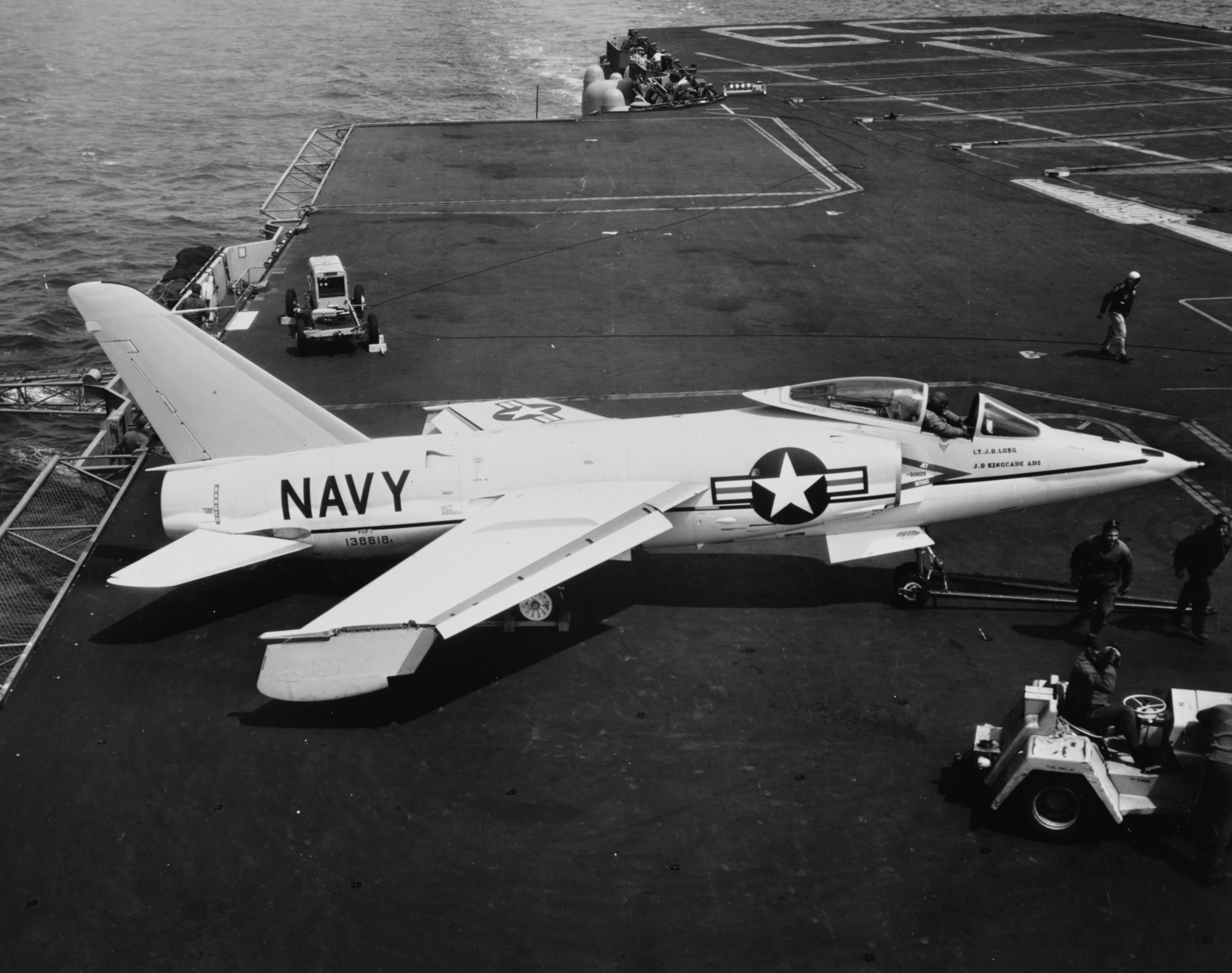 A U.S. Navy Grumman F11F-1 Tiger (BuNo 138618) is positioned on the deck edge elevator of the airdraft carrier USS Forrestal (CVA-59) during operations off the Atlantic Coast, 4 April 1956.